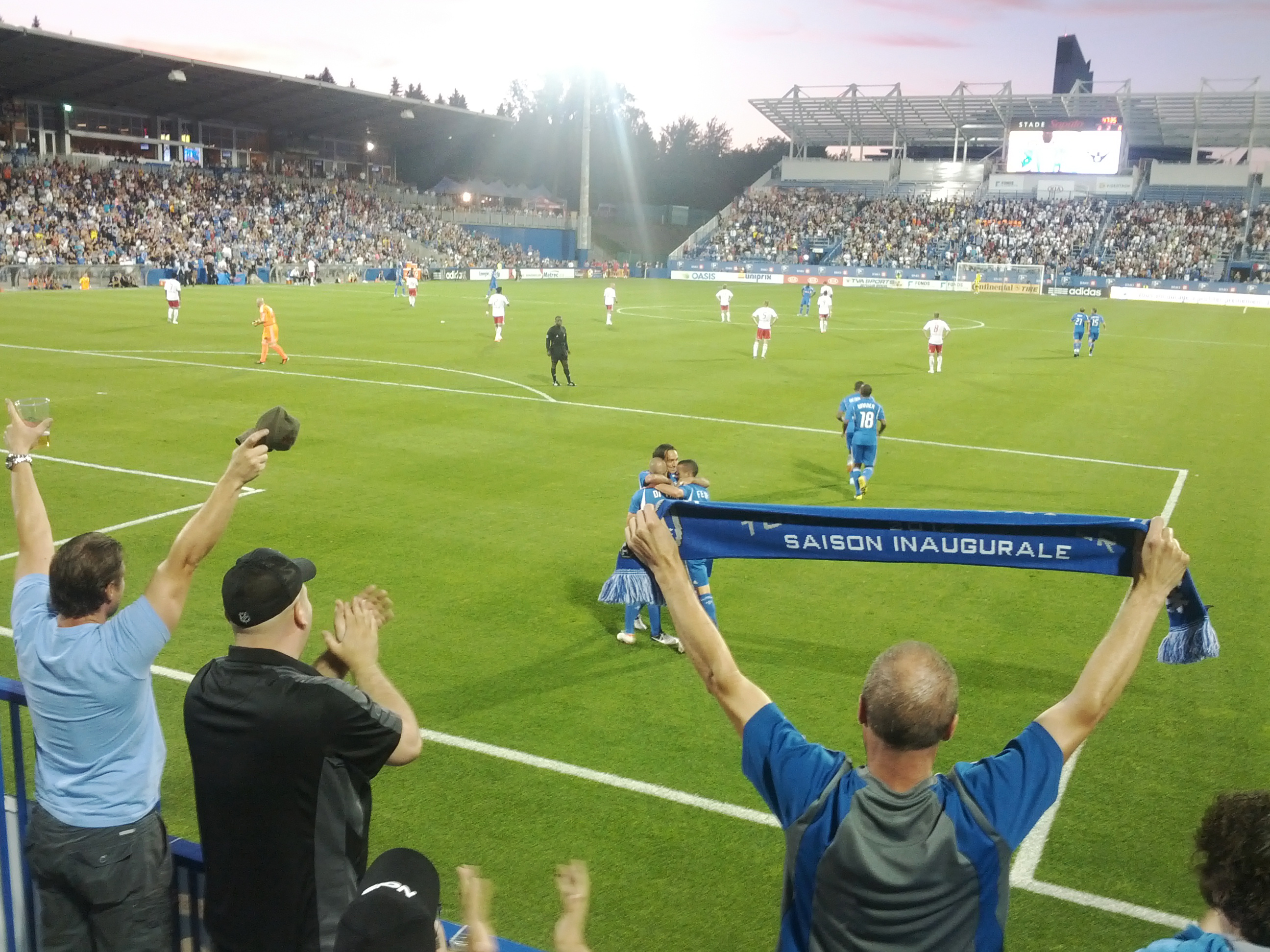 On-field celebration of Marco Di Vaio's first MLS goal during a Montreal Impact game at Saputo Stadium against visiting Red Bull New York, 28 July 2012. Writing on fan' scraf read: "Inaugural season".